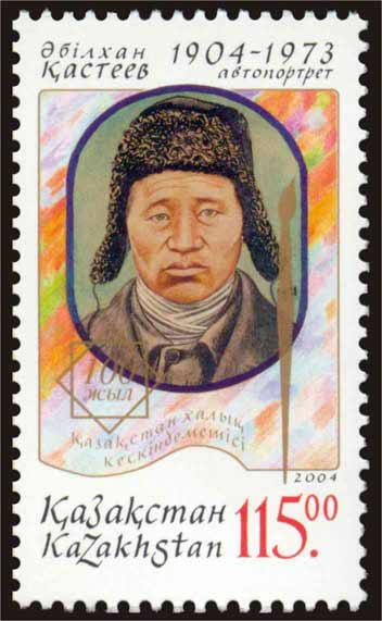 Self-portrait of Abylkhan Kasteyev on a Kzakhstani stamp, 2004, 115 tenge.